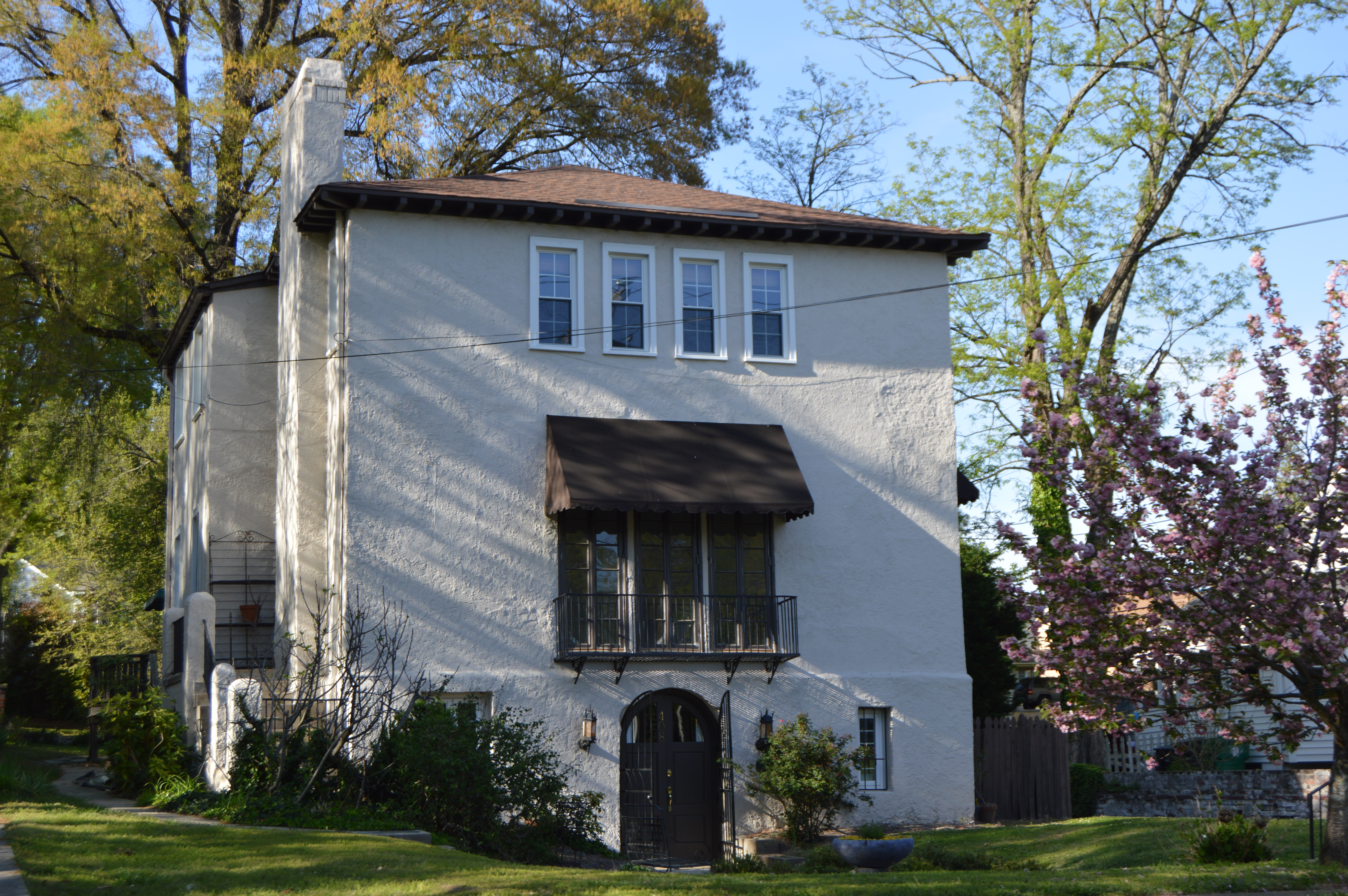 Front of the A. E. Taplin Apartment Building, located at 408 Parkway Avenue in High Point, North Carolina, United States. Built in 1920, it is listed on the National Register of Historic Places.